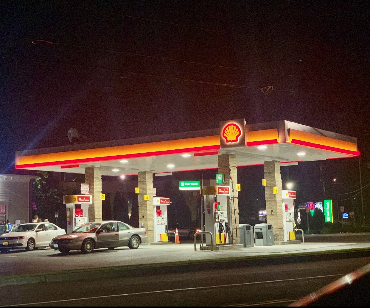 Shell Station by Gas Land Petroleum